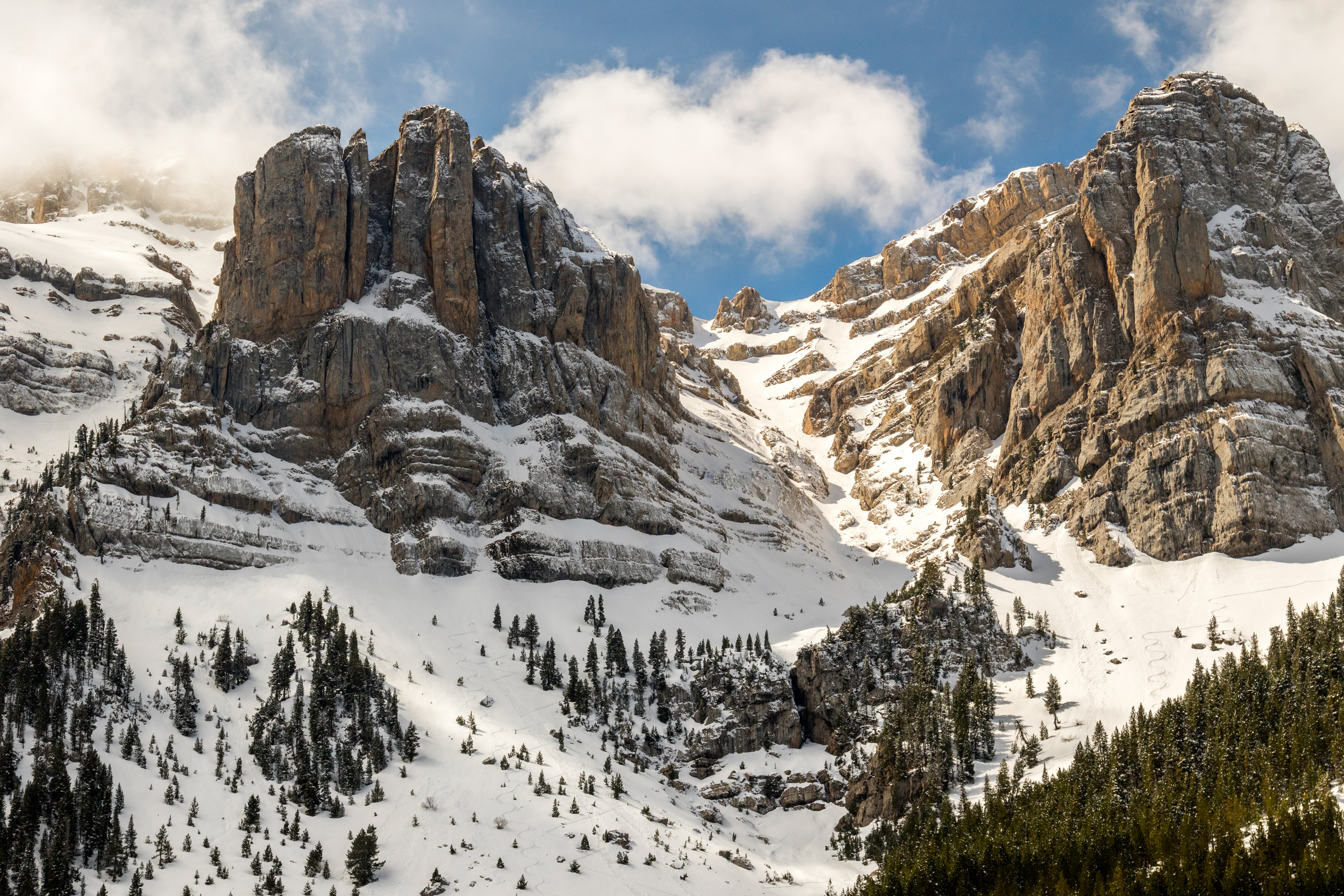 North face of the Cadí mountain range. This is a photography of a Site of Community Importance in Spain with the ID: ES0000018. Natura2000 entry, EEA entry